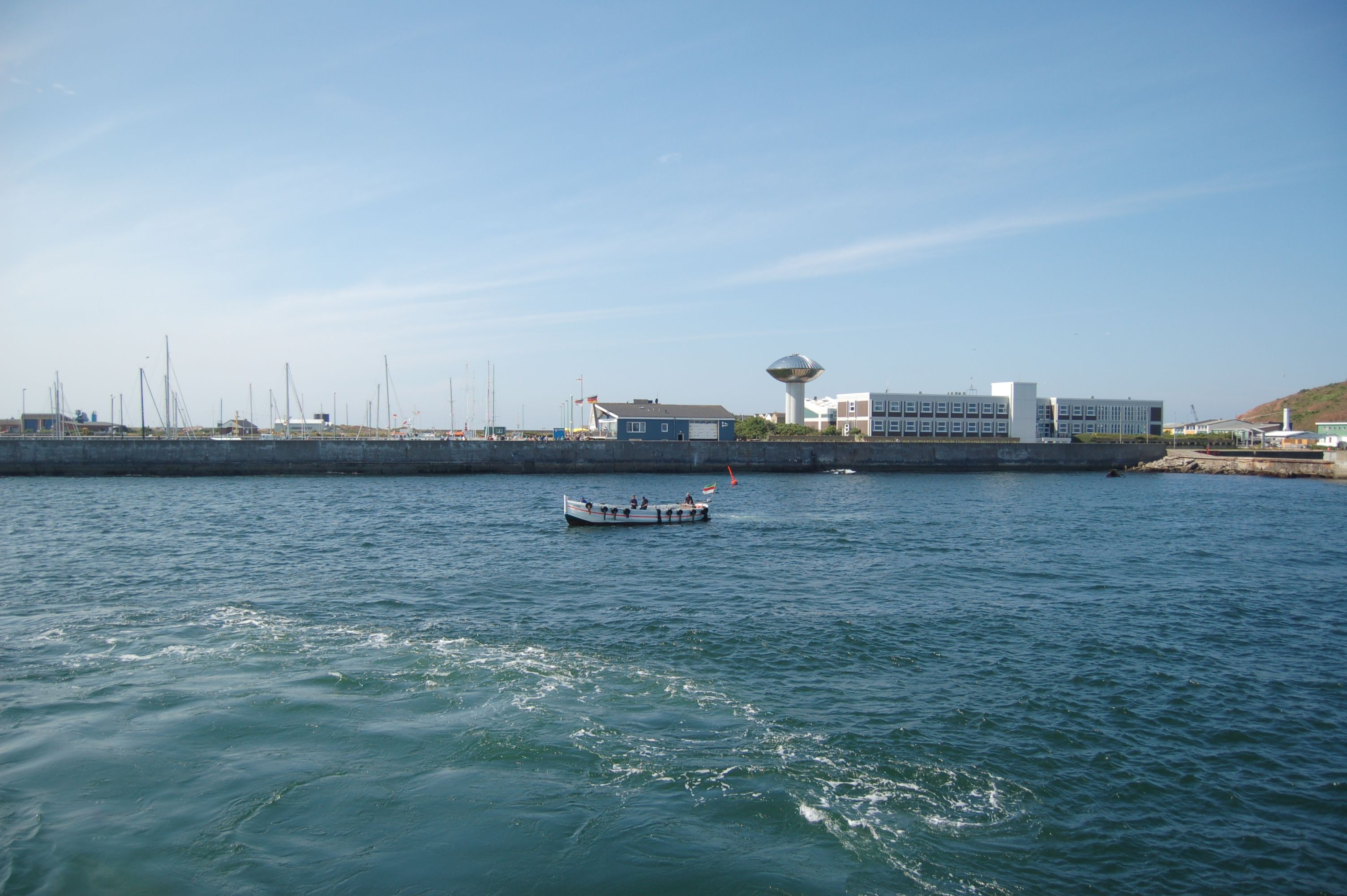 Building A of the Biological Institute Helgoland (BAH) of the Alfred Wegener Institute for Polar and Marine Research